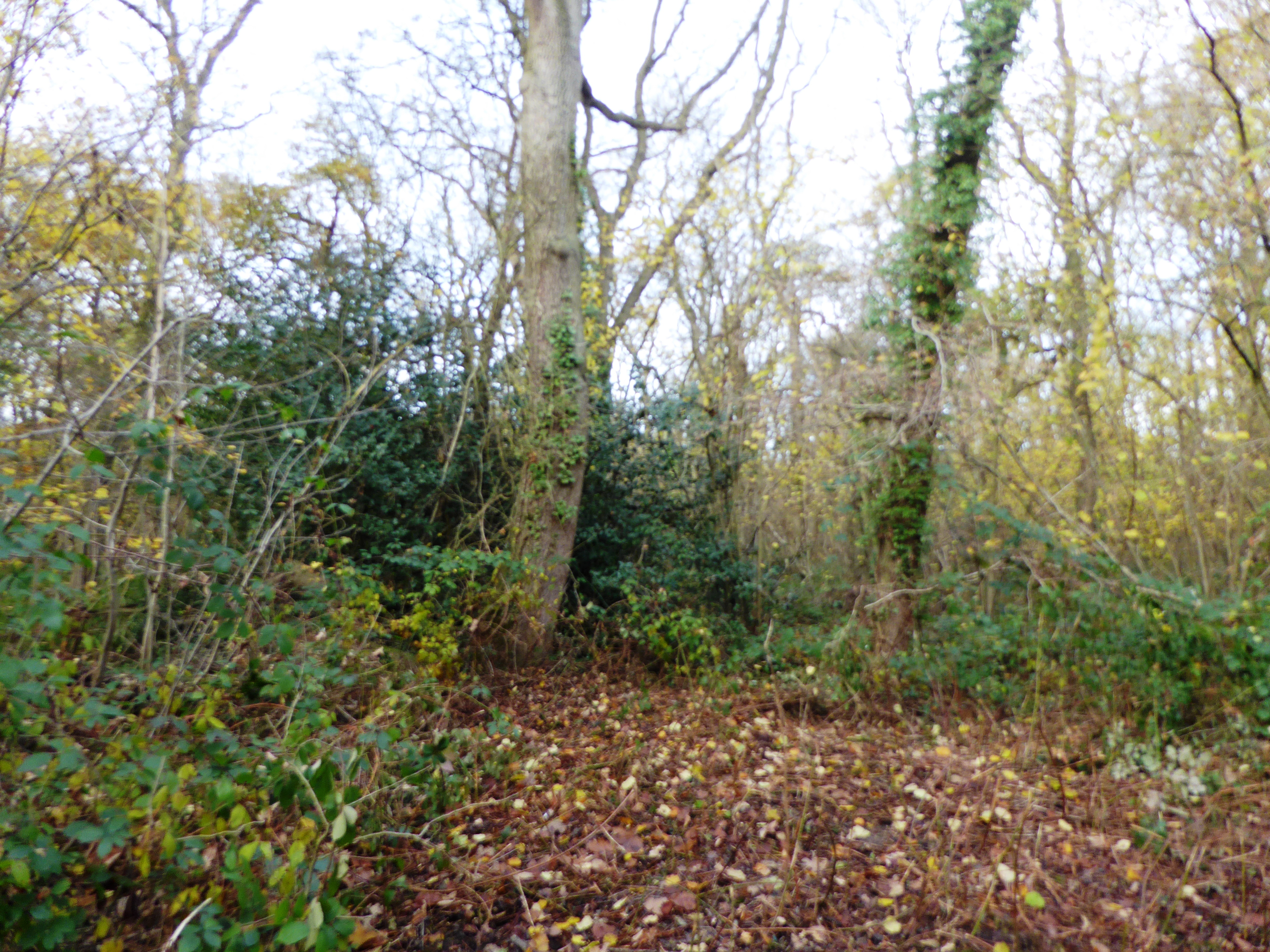 Pasture Wood is part of Pasture and Asplin Woods Site of Special Scientific Interest west of Belton in Leicestershire.